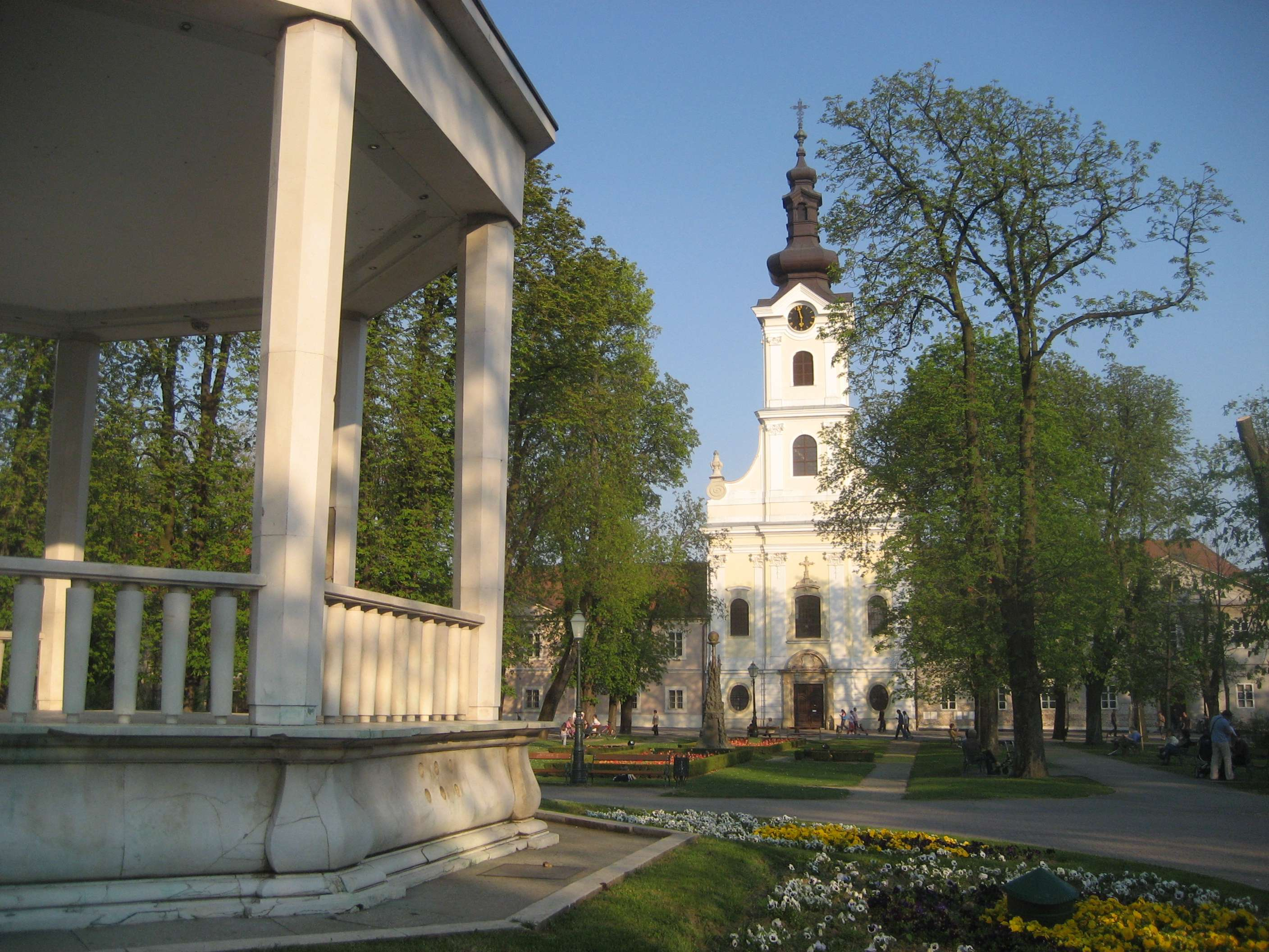 Park in Bjelovar, Croatia. Church of St. Terezije